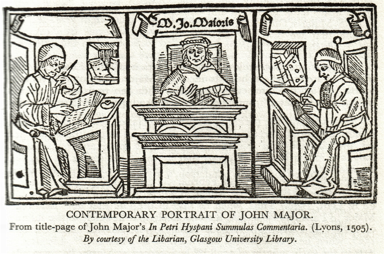 Supposed picture of John Mair (or John Major) in the frontespiece of one of his publications.